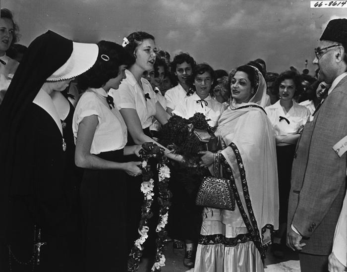 Liaquat Ali Khan (at right) of Pakistan visits New Orleans, 1950. Prime Minister Ali Khan and his wife are welcomed at New Orleans Airport. Garlands of flowers greet the distinguished Prime Minister Ali Khan, of Pakistan, and his wife, Begum Liaquat Ali Khan, at New Orleans Airport. From photograph album, "Visit of his Excellency Liaquat Ali Khan, Prime Minister of Pakistan, to the United States of America, May 3 to May 26, 1950."